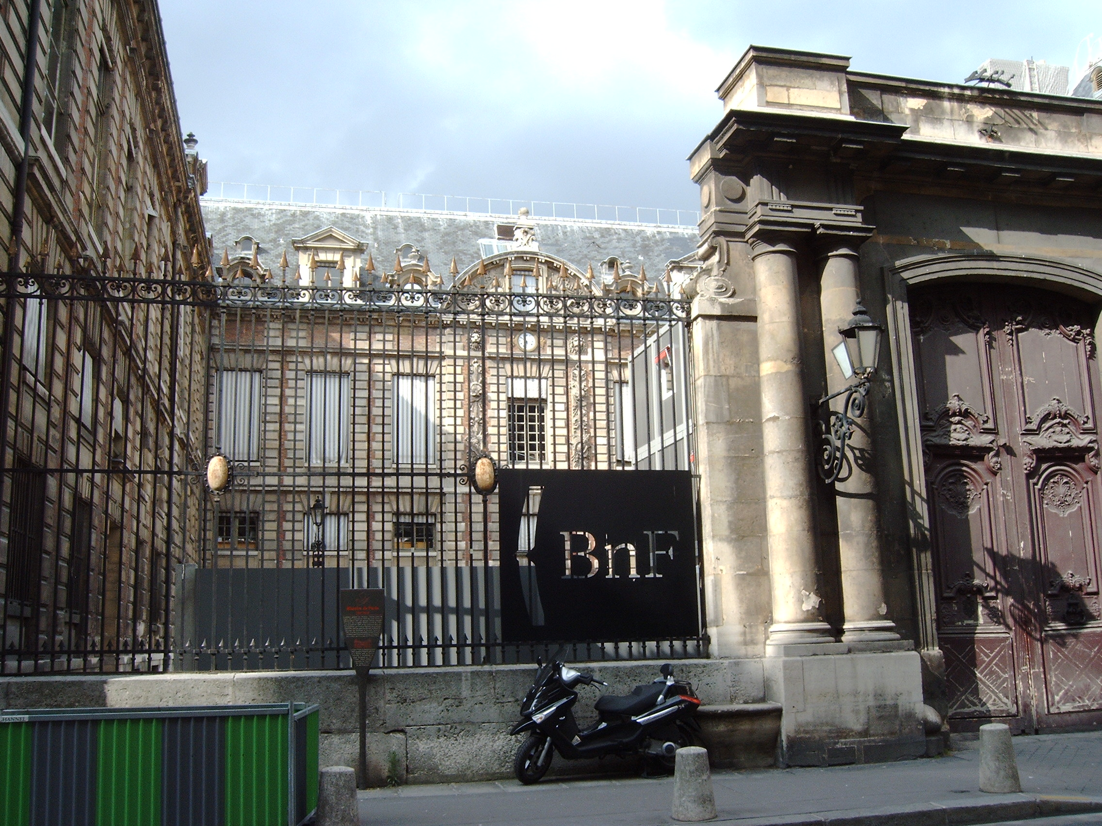 Hôtel Tubeuf seen from the rue des Petits-Champs